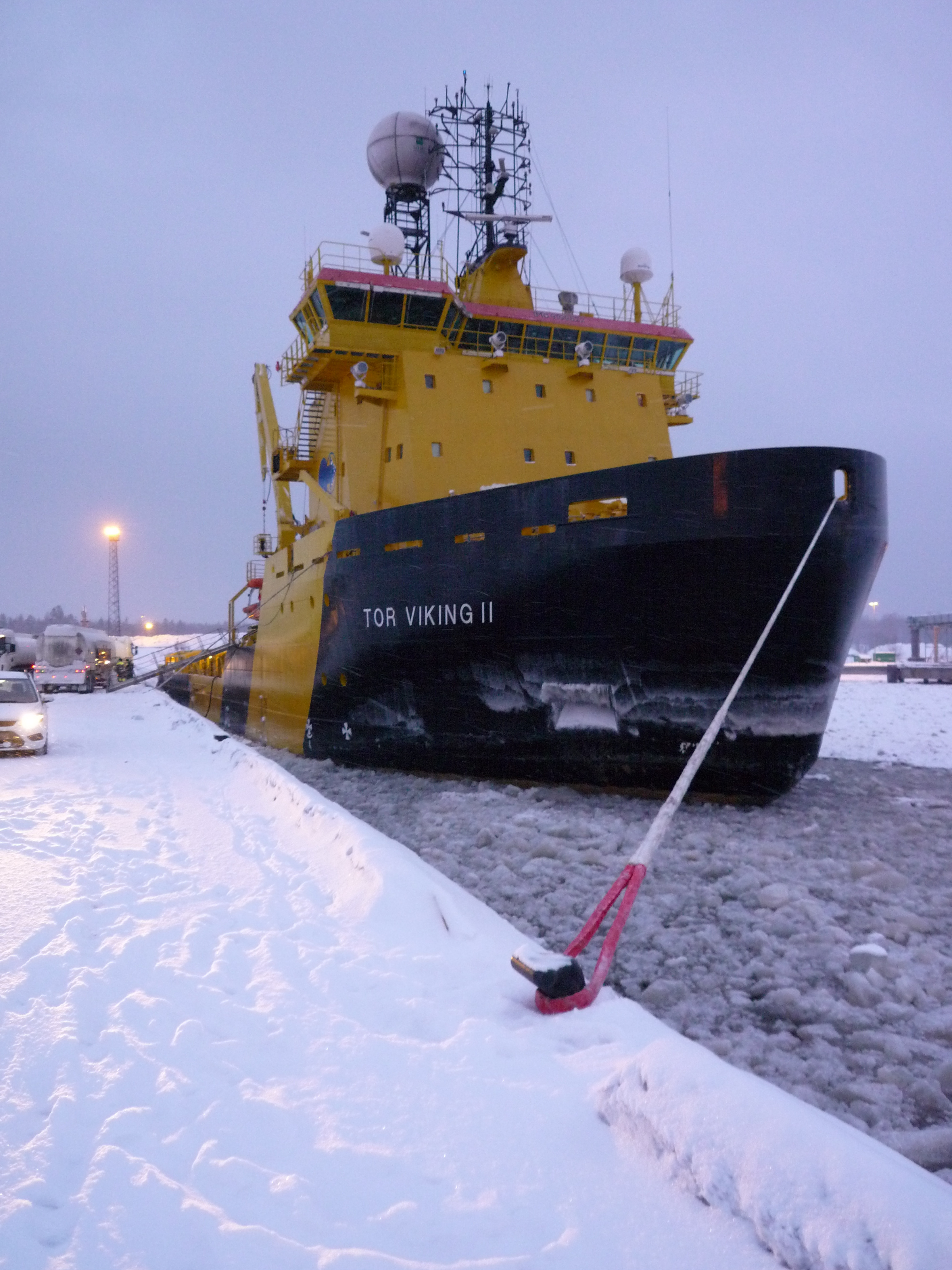 Picture of icebreaker Tor Viking II taken in Gävle.